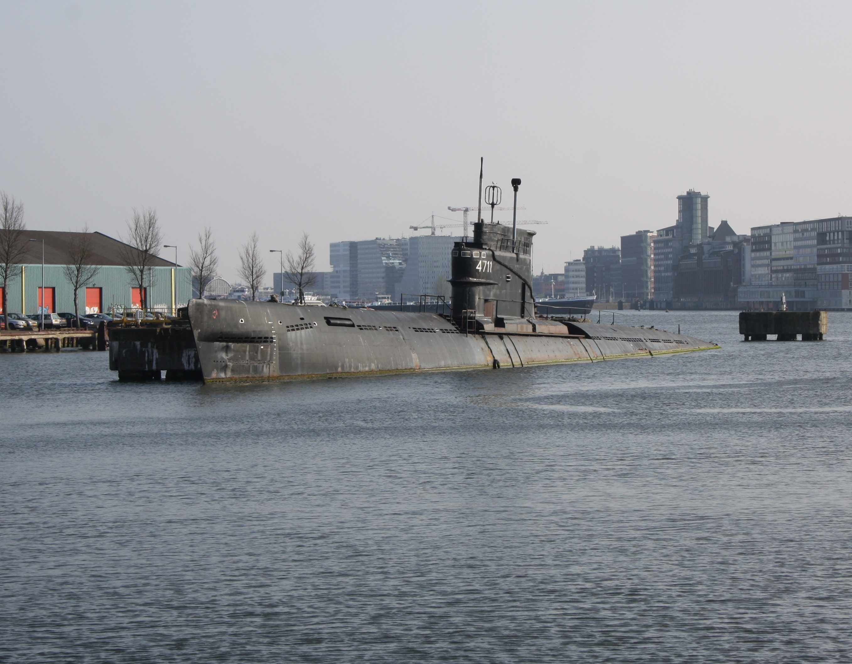 Amsterdam, submarine in the sea